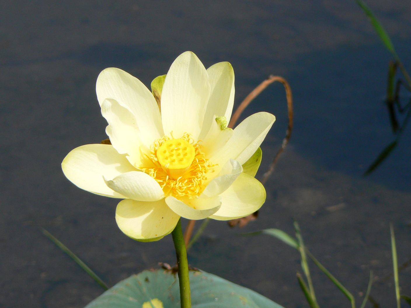 American or Yellow Lotus (Nelumbo lutea), at Lake Jackson, Florida, USA.